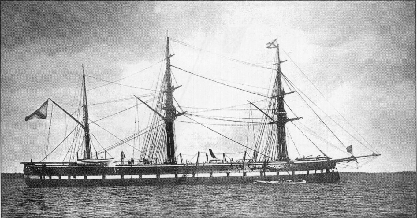 The Imperial Russian Navy ironclad frigate Petropavlovsk.